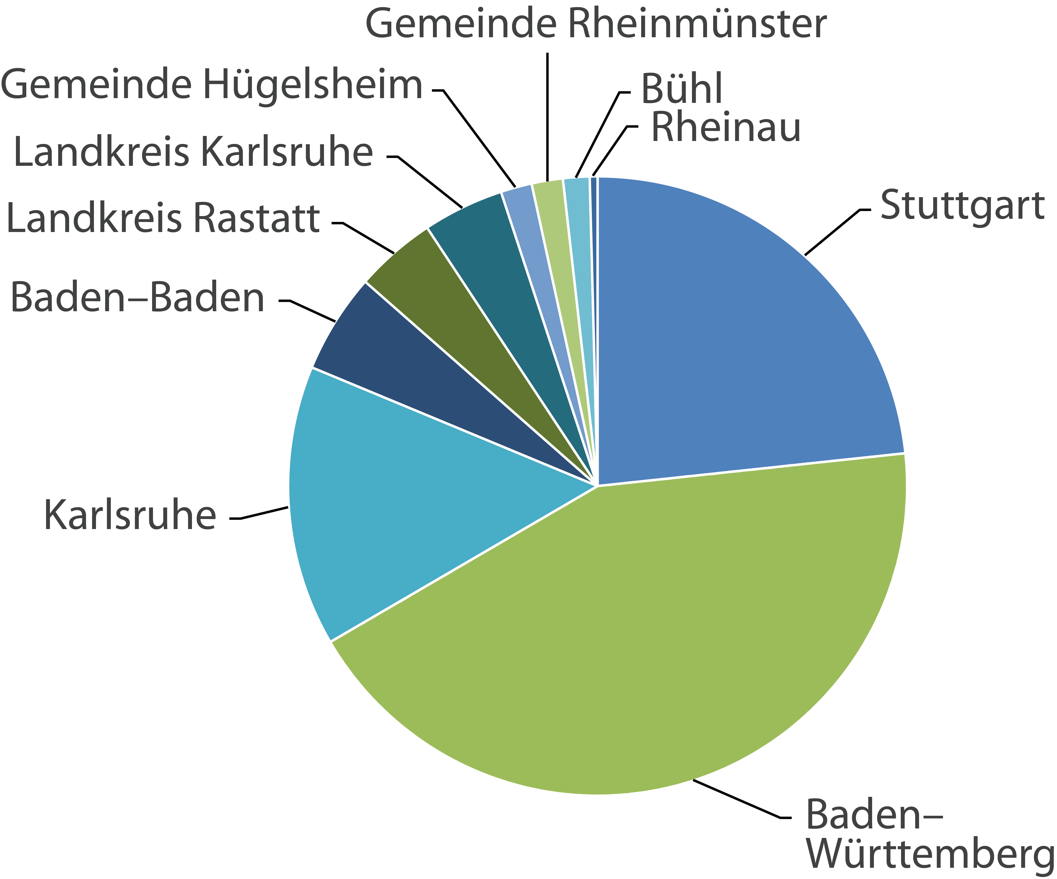 Details of ownership of the airport Karlsruhe/Baden-Baden (FKB)